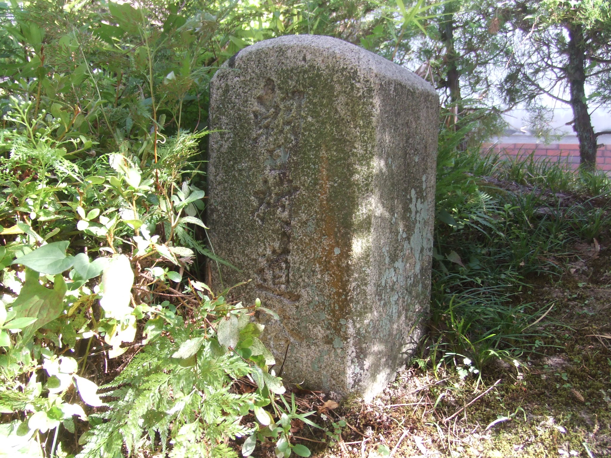 Kilometre zero of Asahi village. (Asahi village, Nakashima-gun, Aichi.)